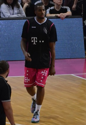 taken during professional basketball game in Germany